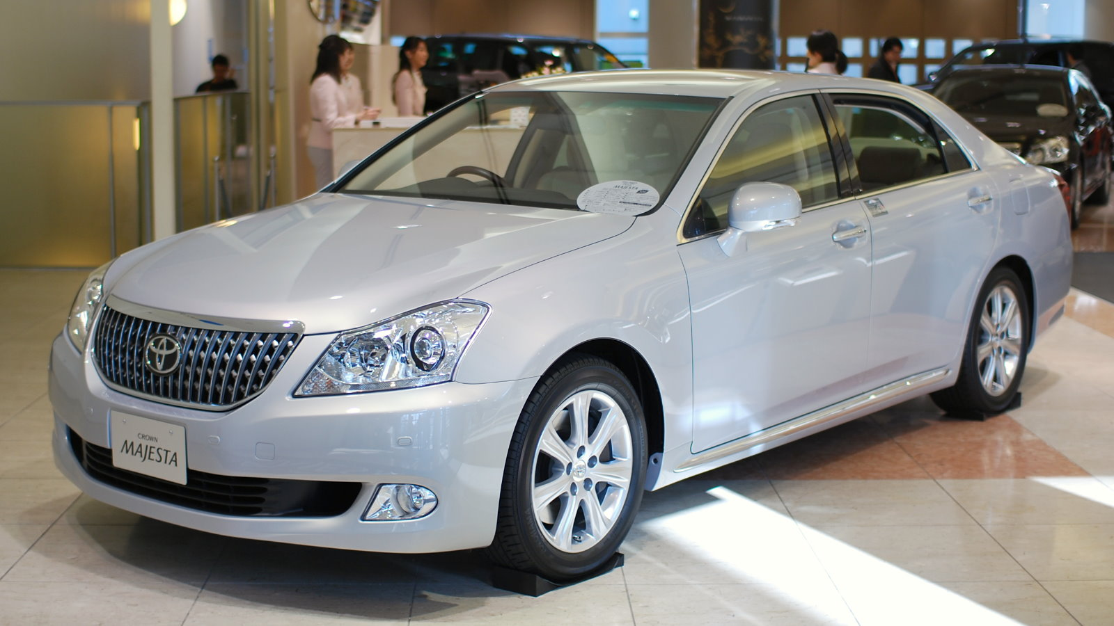 5th generation Toyota Crown Majesta (2009/3 - )